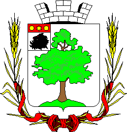 COA Bogoduchow (Project by Boris Kene)